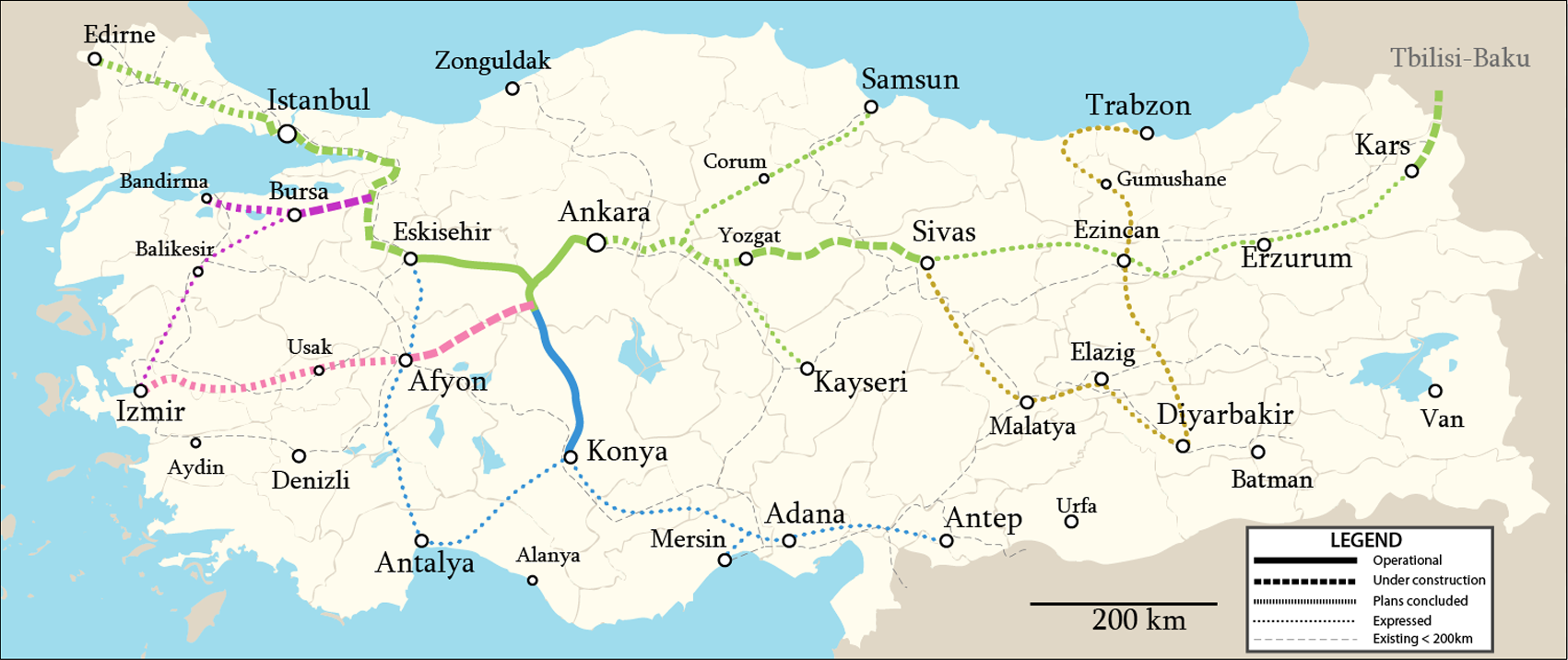 Updated map featuring (high speed) rail lines in Turkey